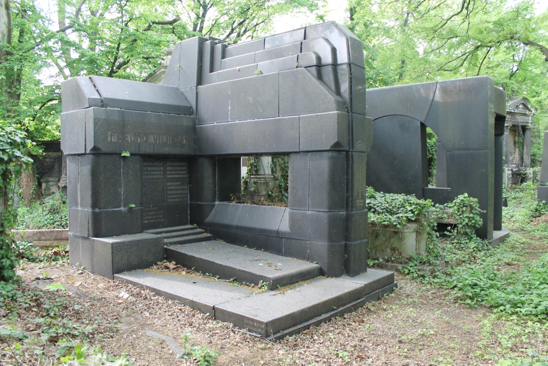 Family vault of Vilmos tószegi Freund, designed by Emil Vidor, 1910. Salgótarjáni Street Jewish Cemetery, Budapest